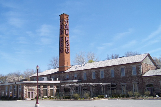 Taken by User:Trappy, April 2006. This is a photograph of the Keg Restaurant in the St. Catharines' community of Merritton. It used to be one of many papermills in the area.